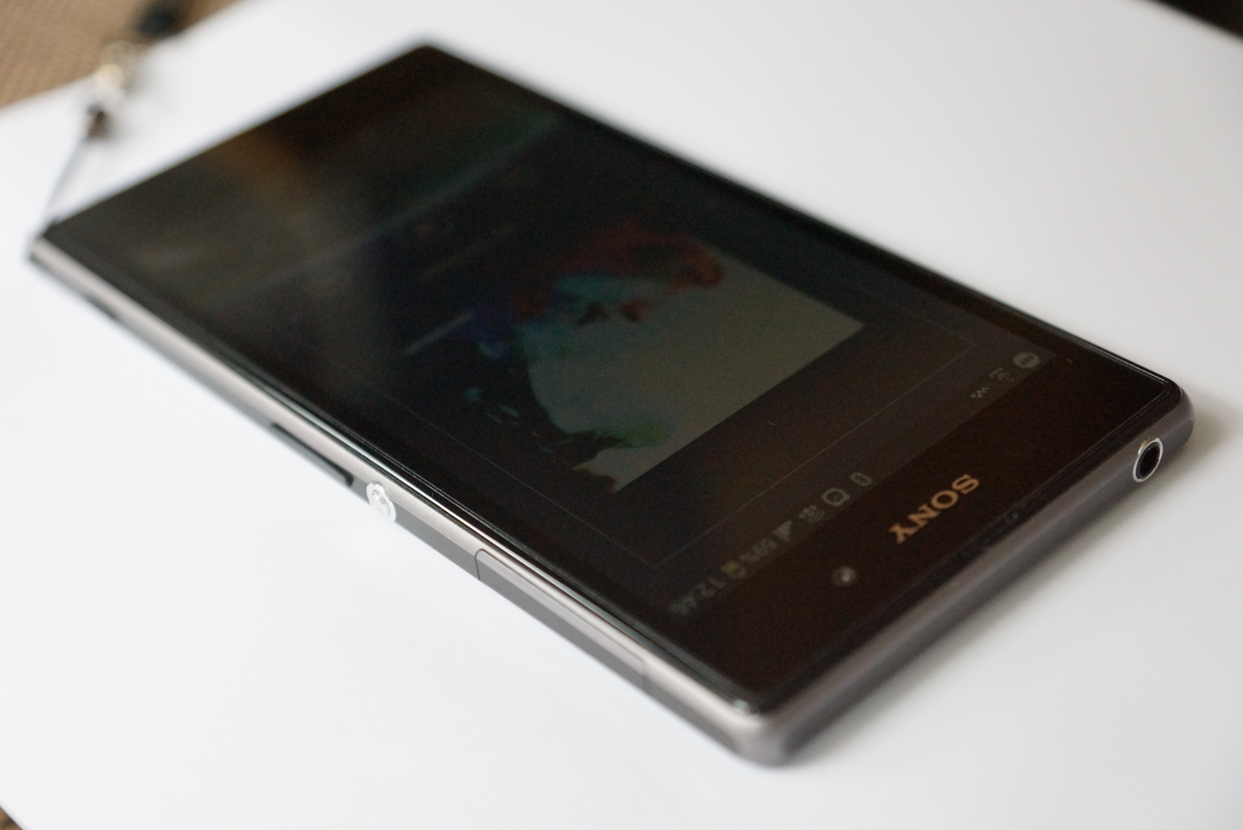 Sony Xperia Z1 Color: Black Typ: C6903 Codename: honami View: Front right and running Sony Walkmann App